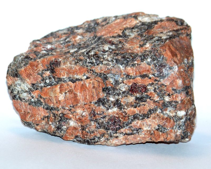 Granite with the fluidized texture, and with garnet (almandine). Visible also twins of potassic feldspar.